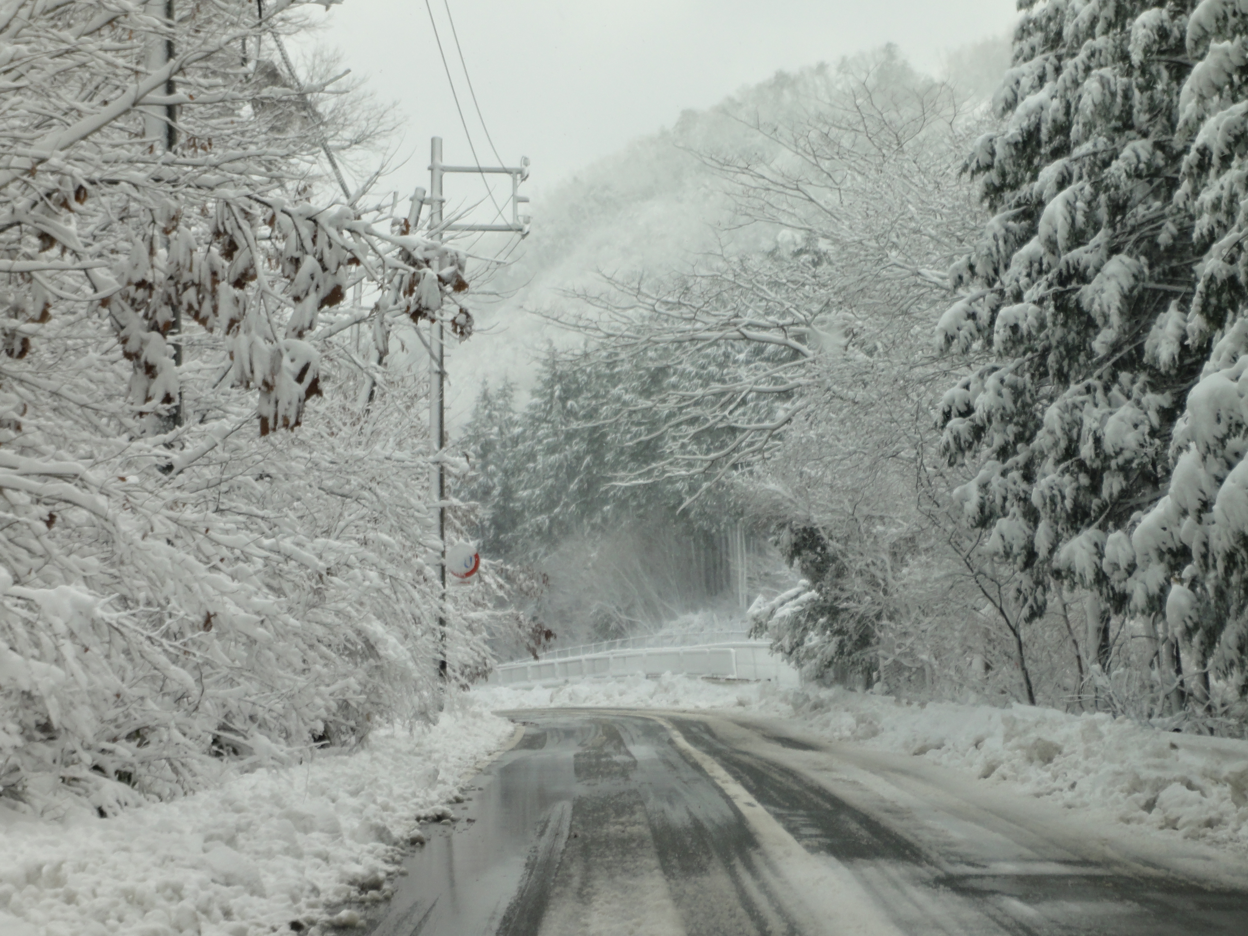 Hiroshima pref. Route23, Taishaku-uyama, Tojo, Shobara, Hiroshima pref., Japan